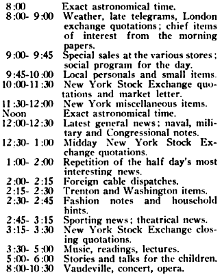 Daily schedule of the New Jersey Telephone Herald news and entertainment system